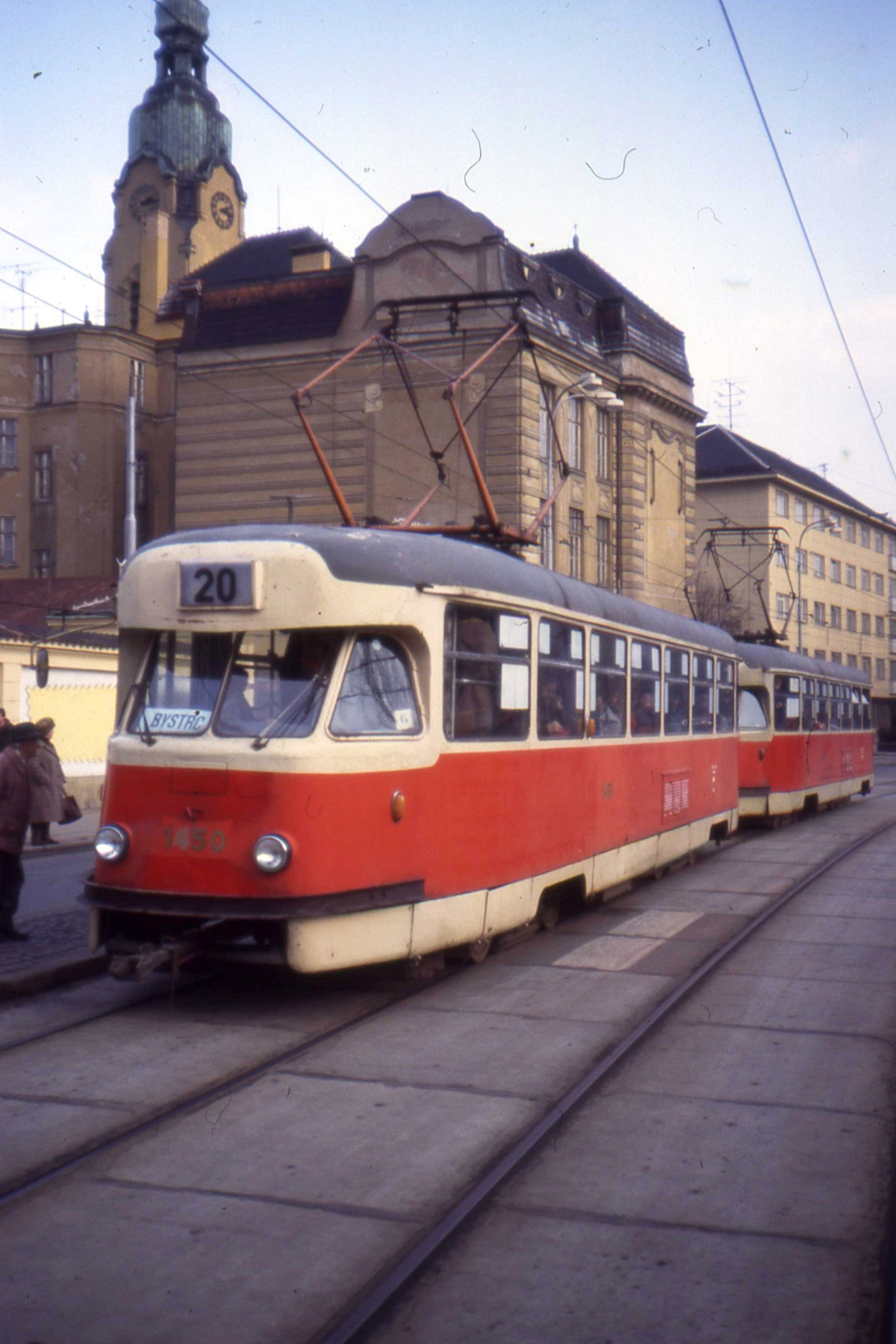 Tatra T2R trams in Brno, Czech Republic